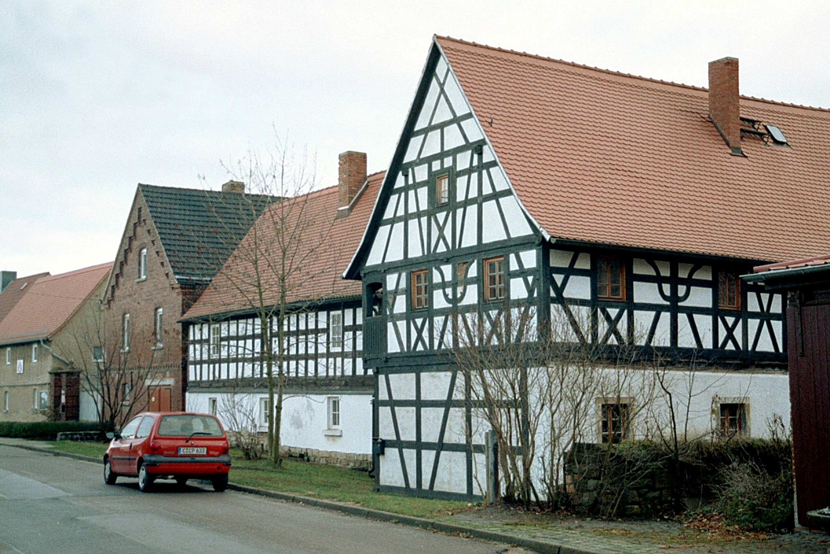 Weickelsdorf (Osterfeld), framework